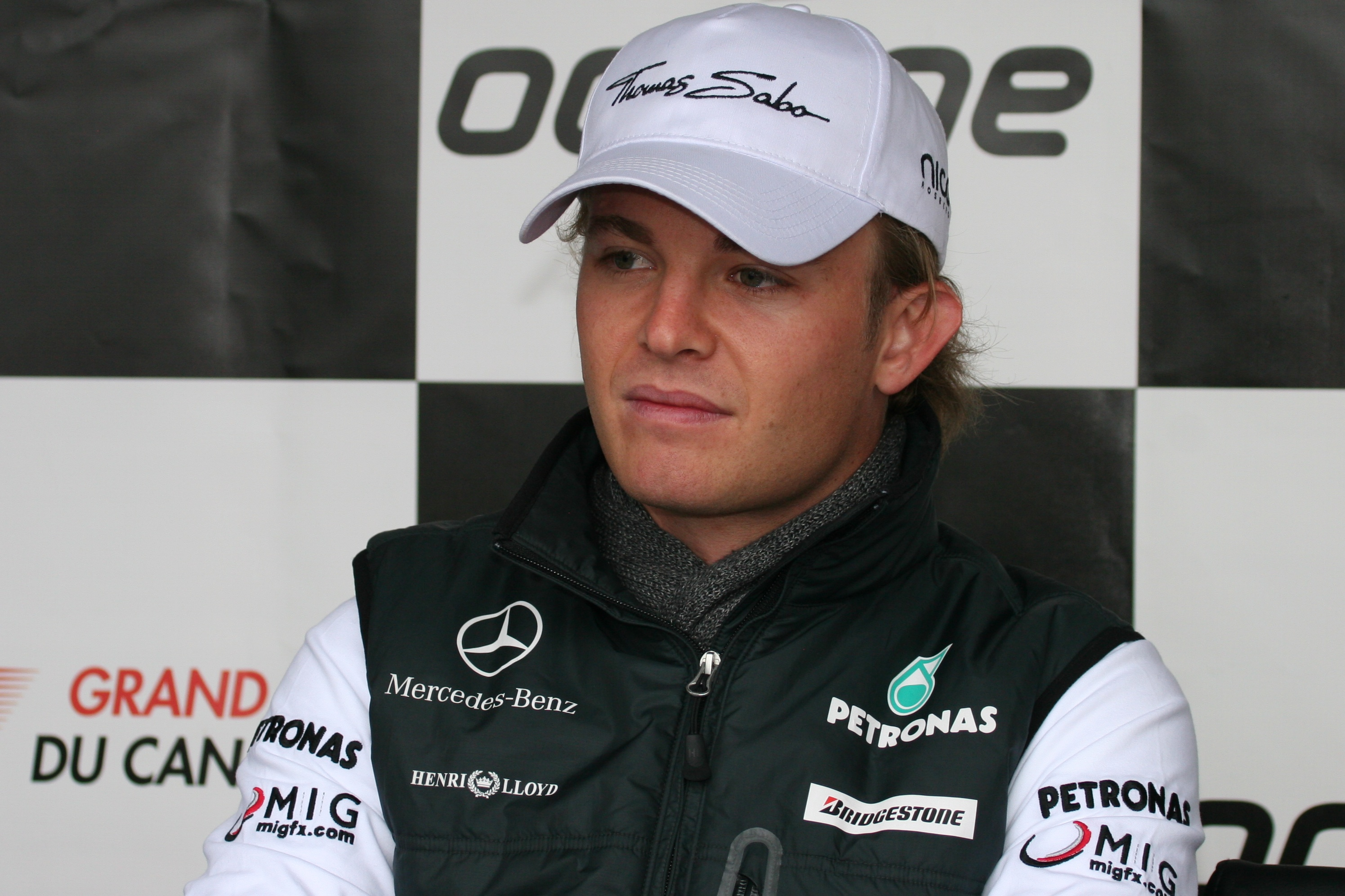 Formula One 2010 Rd.8 Canadian GP: Nico Rosberg (Mercedes GP)